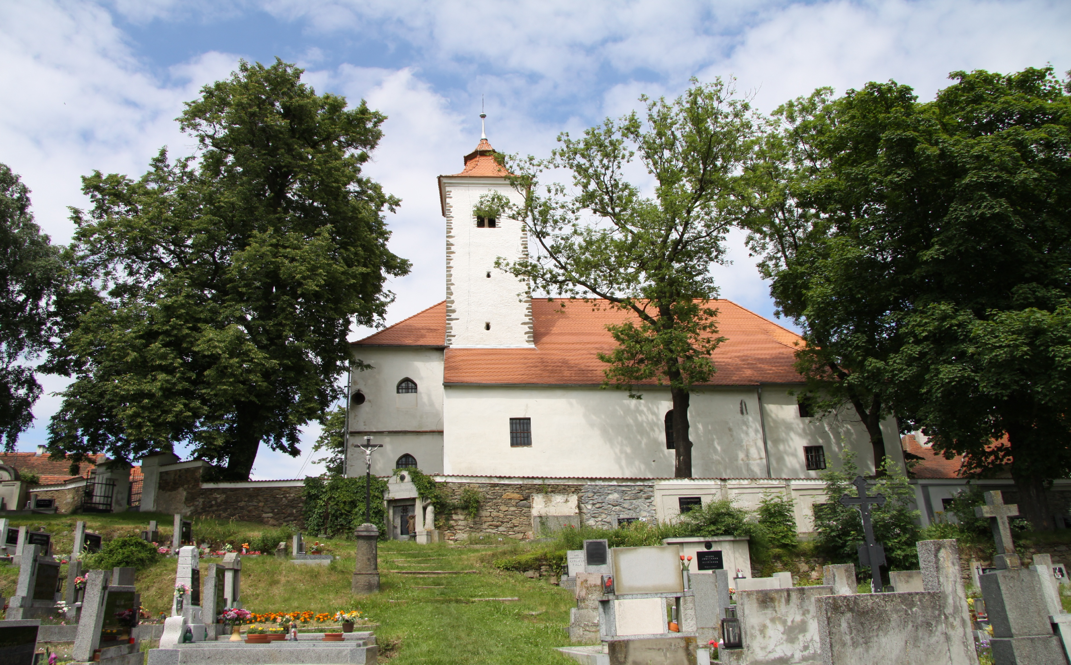 Malý Bor village in Klatovy District, Czech Republic. Church with cemetery This photograph was taken within the scope of the 'Czech Municipalities Photographs' grant. - Google Maps - Google Earth